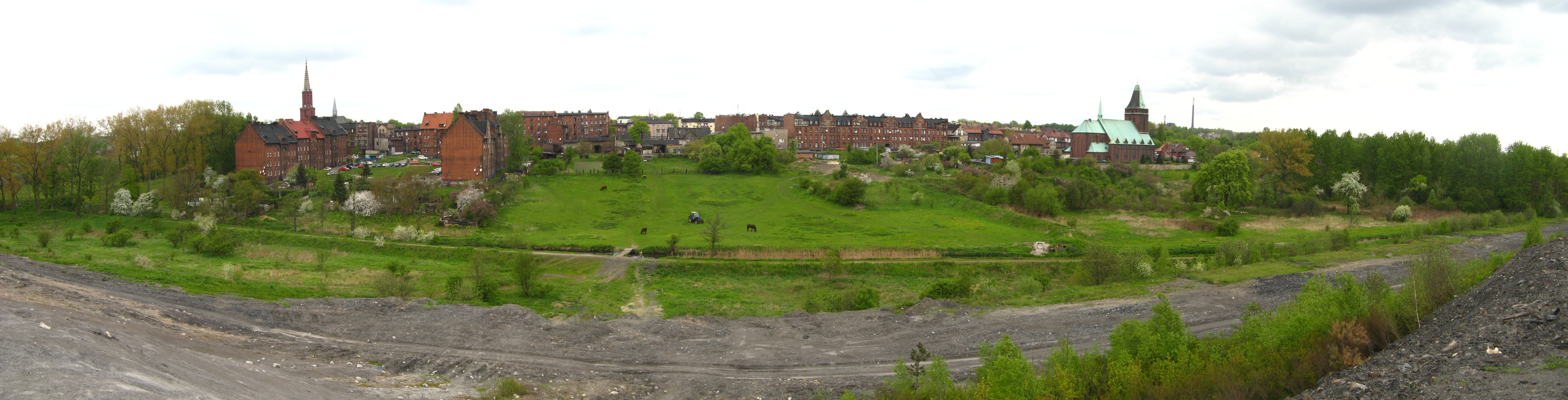 Biskupice in Zabrze.